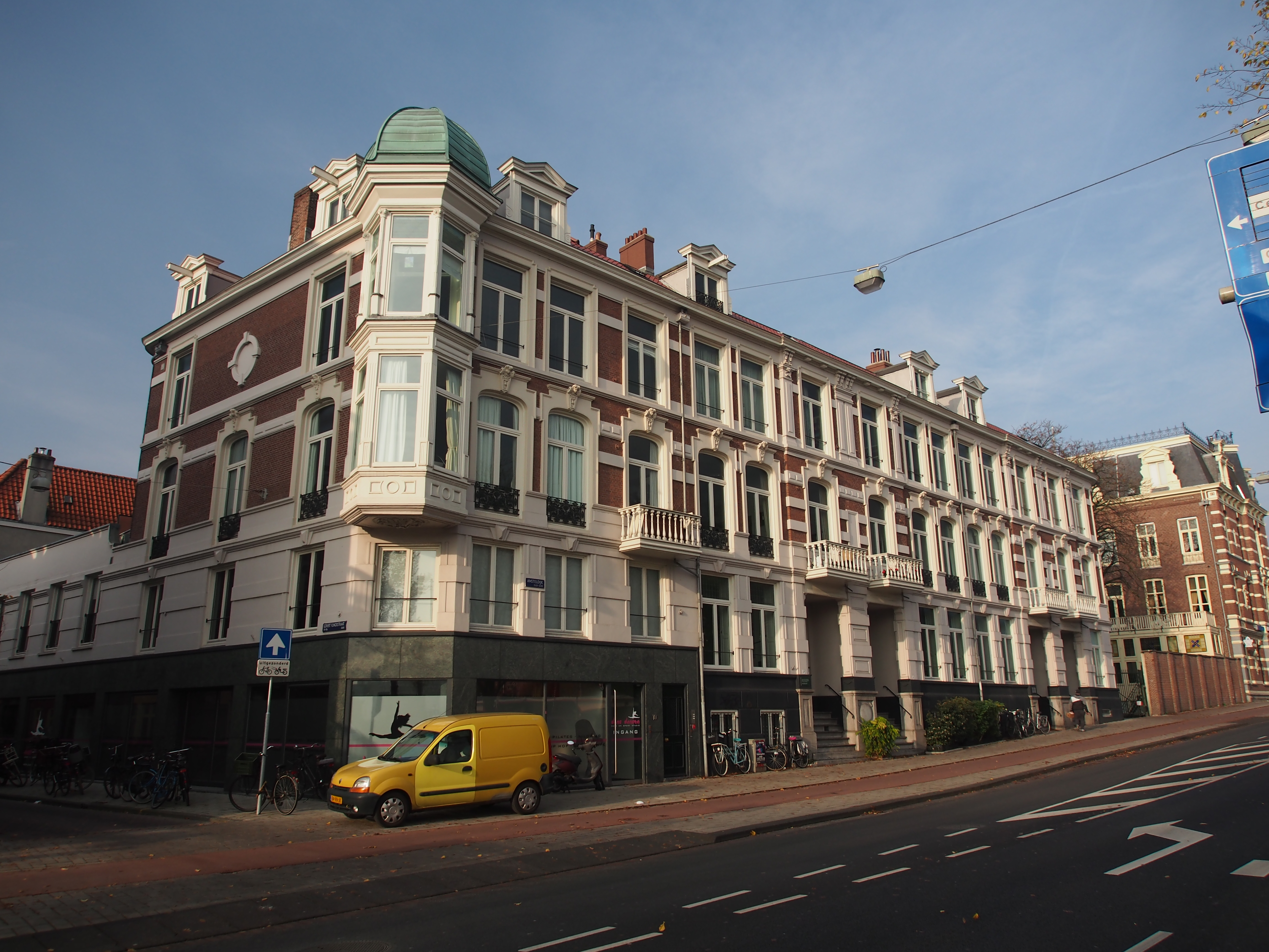 Photographed at Amsterdam.